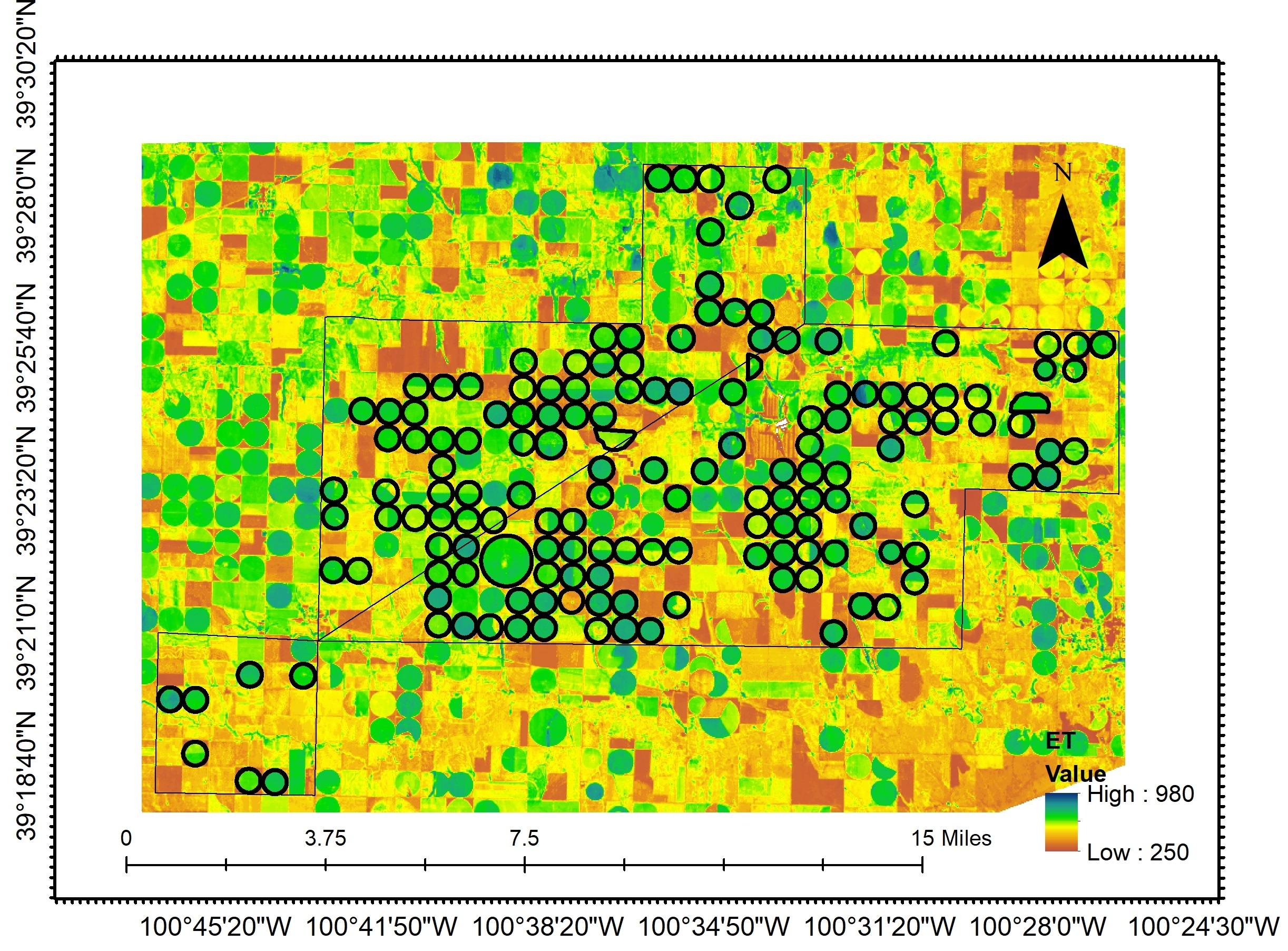 Simulated cumulative seasonal evapotranspiration (ET) aggregated from hourly data in mm at 30 m spatial resolution using automated BAITSSS between 10 May and 15 September 2013 for Sheridan 6, Kansas, USA (black circles, water rights shapes).